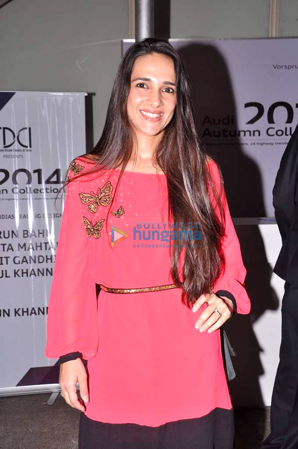 Tara Sharma at art exhibition 'Passages'